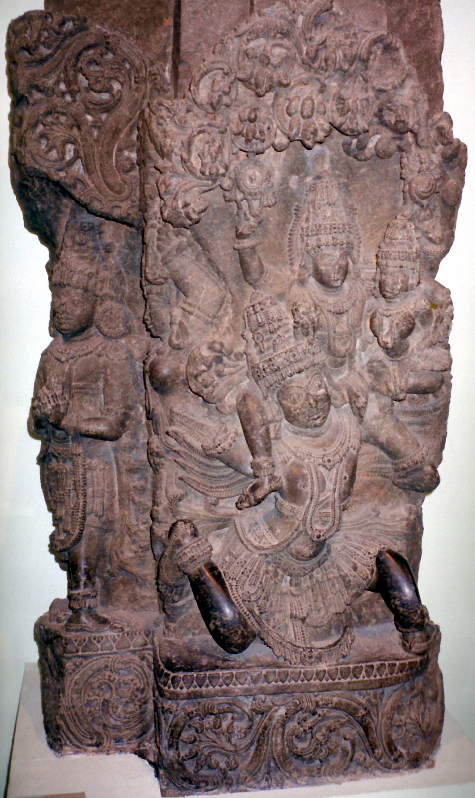 Vishnu and Lakshmi on Garuda. Hoysala, 12th century, from Halebid. Delhi National Museum, India.